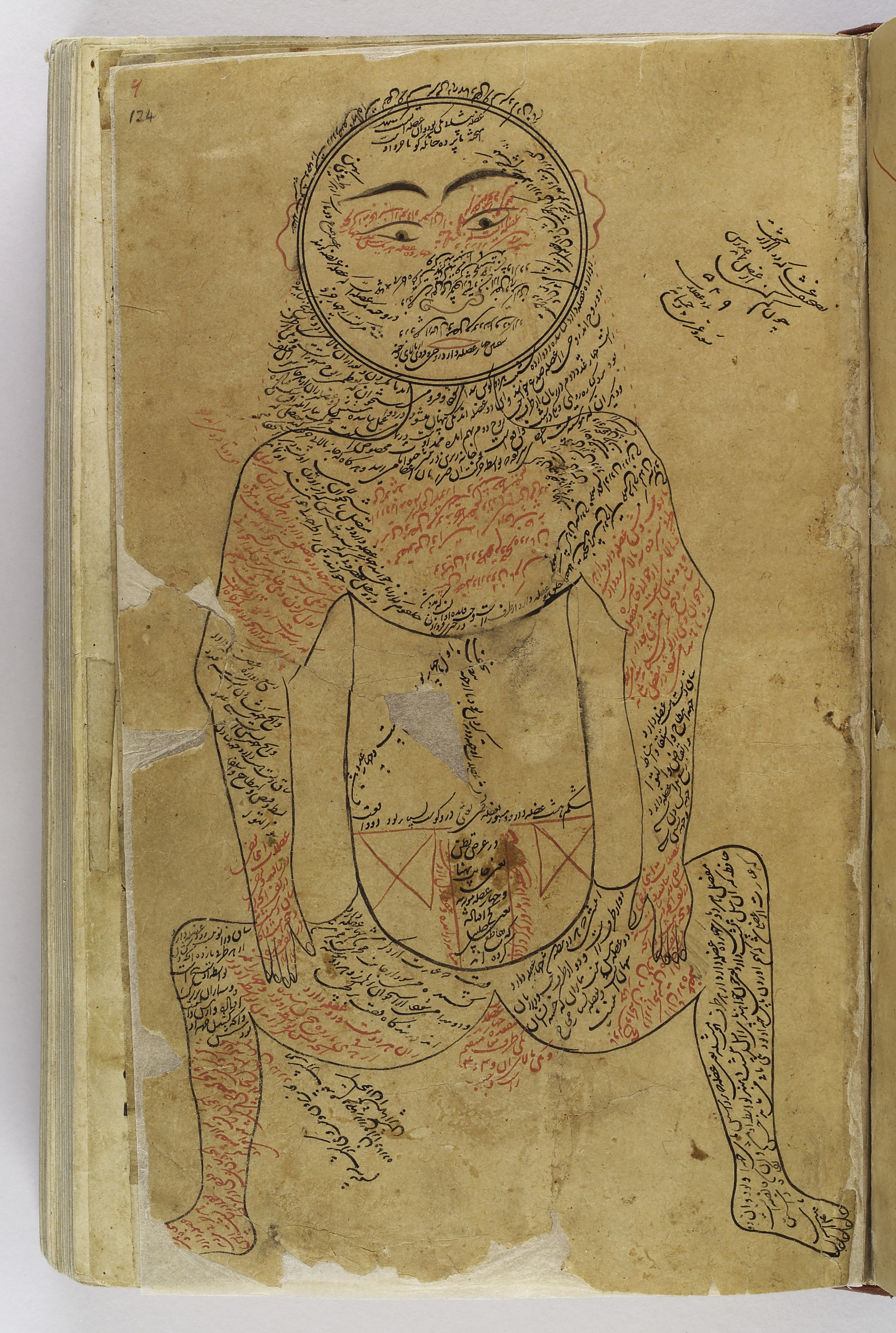 Muscular system Asian Collection Keywords: Arabic; Islamic; manuscripts: wellcome ms or. 1; ms or. 155; oriental manuscripts; Persian; Medicine; Ibn Sina (Avicenna); Middle East; Iraq; Iran